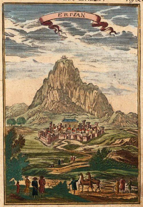 View of Erivan (and Noah's ark), Description de L'Universe (Alain Manesson Mallet, 1683)